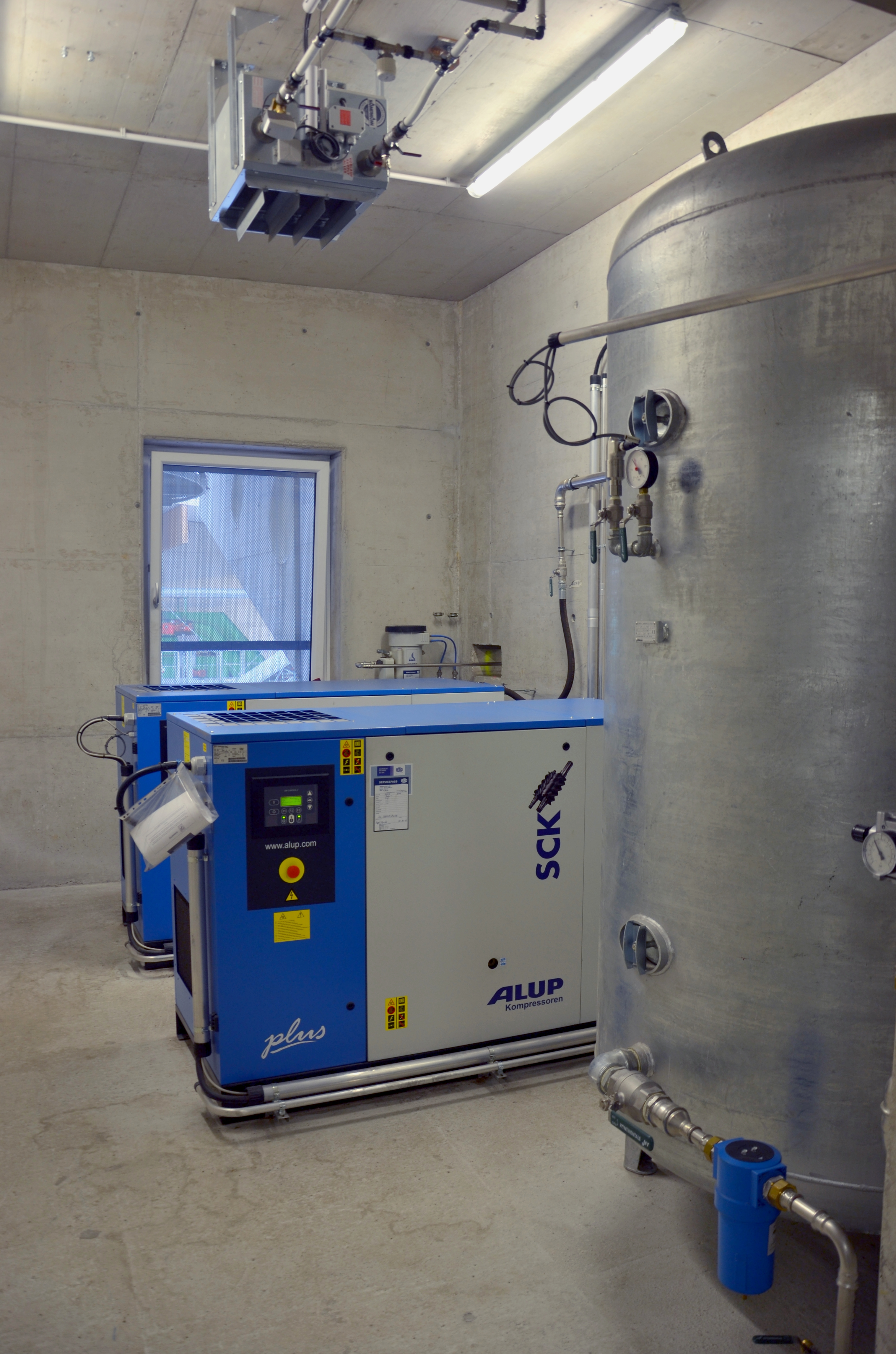 Compressed air station, 2 Scroll compressors